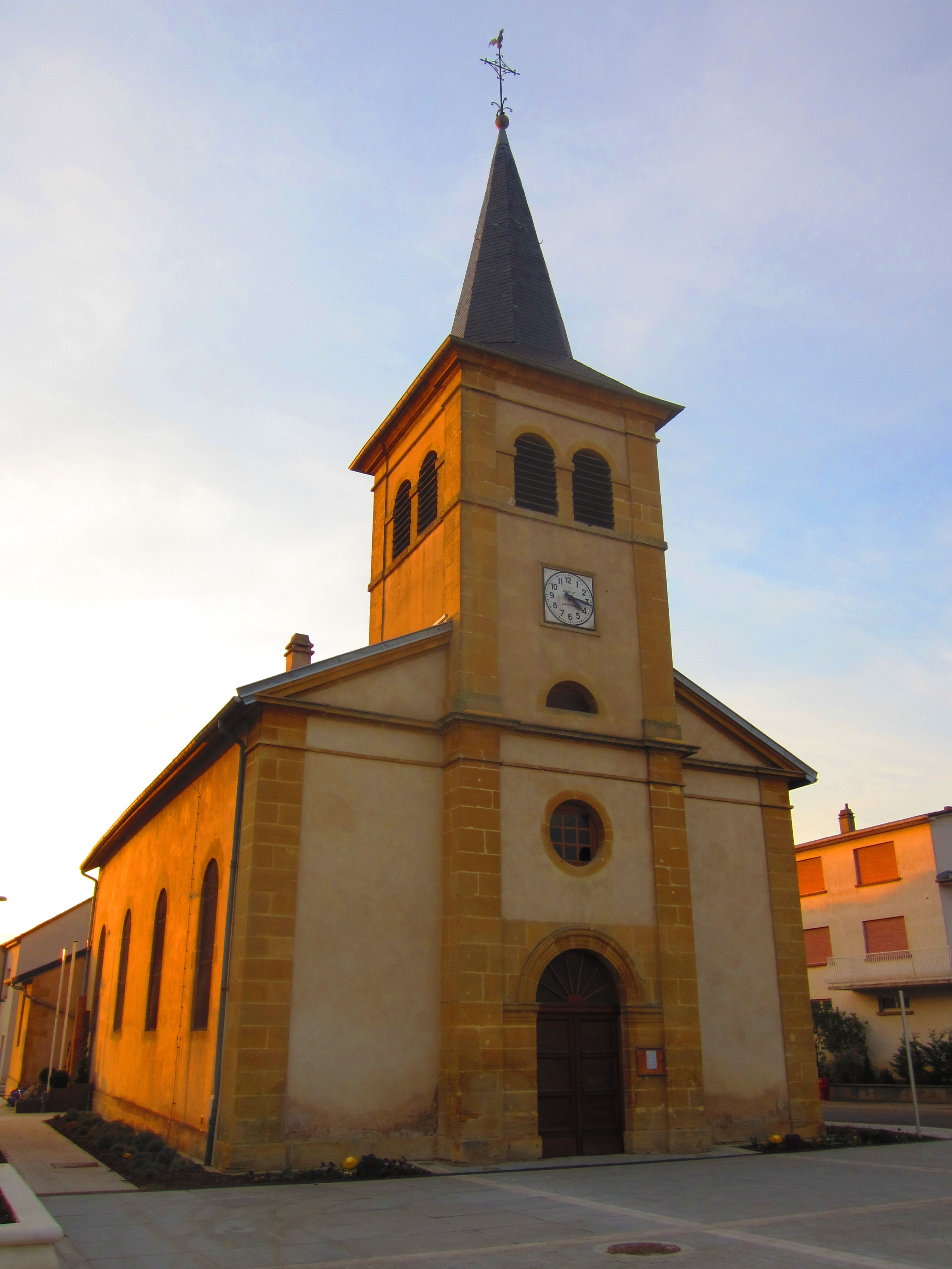 Description eglise Tremery Date23 November 2011Sourcemon appareil photoAuthorAimelaimePermission(Reusing this file) eglise Tremery